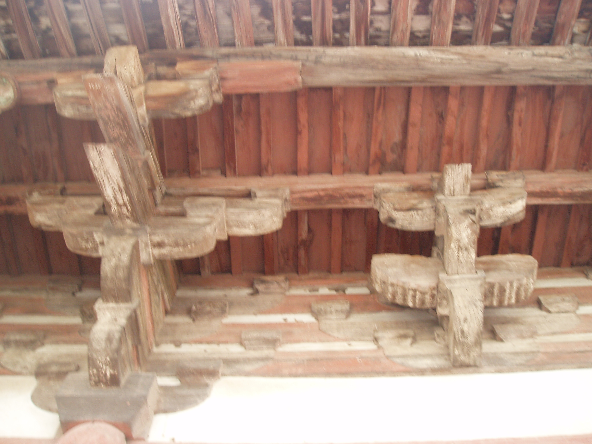 Dougong brackets and roof beams — at The Grand East Hall of the Foguang Temple. Located in Shanxi, China.